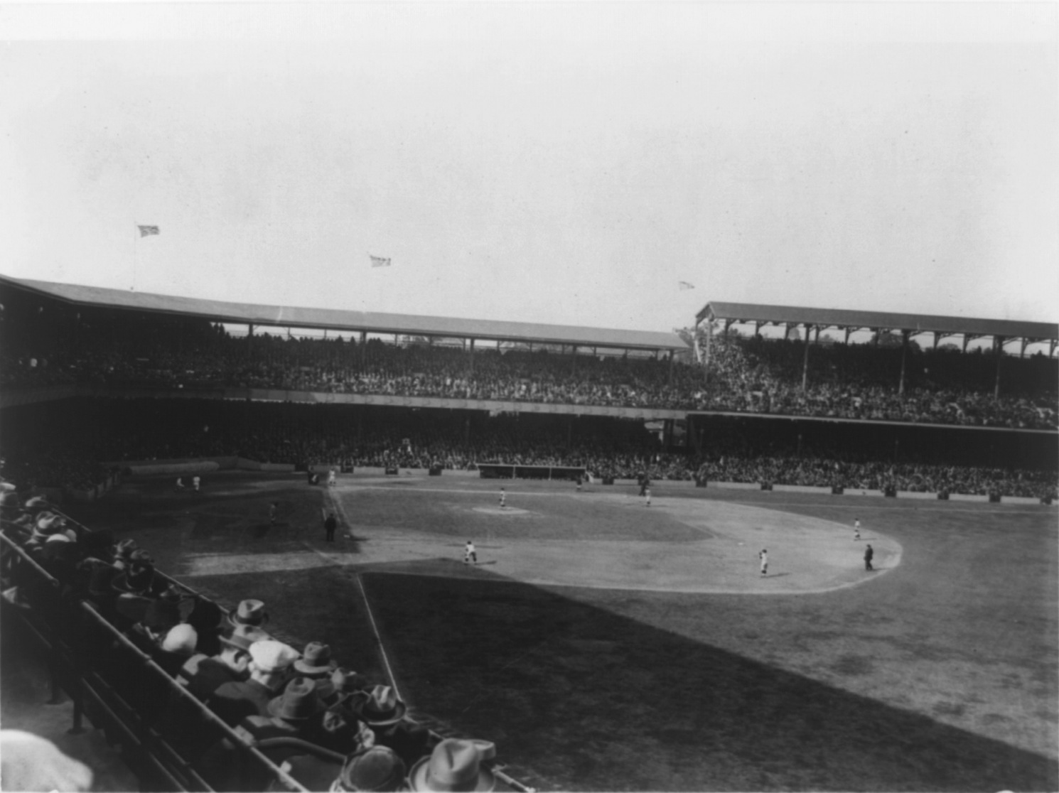 [Baseball game at old Griffith Stadium, Washington, D.C.]